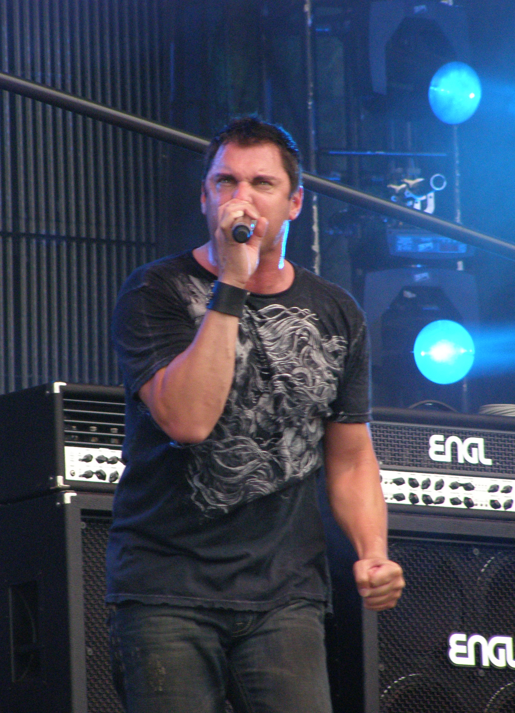 Johnny Gioeli live